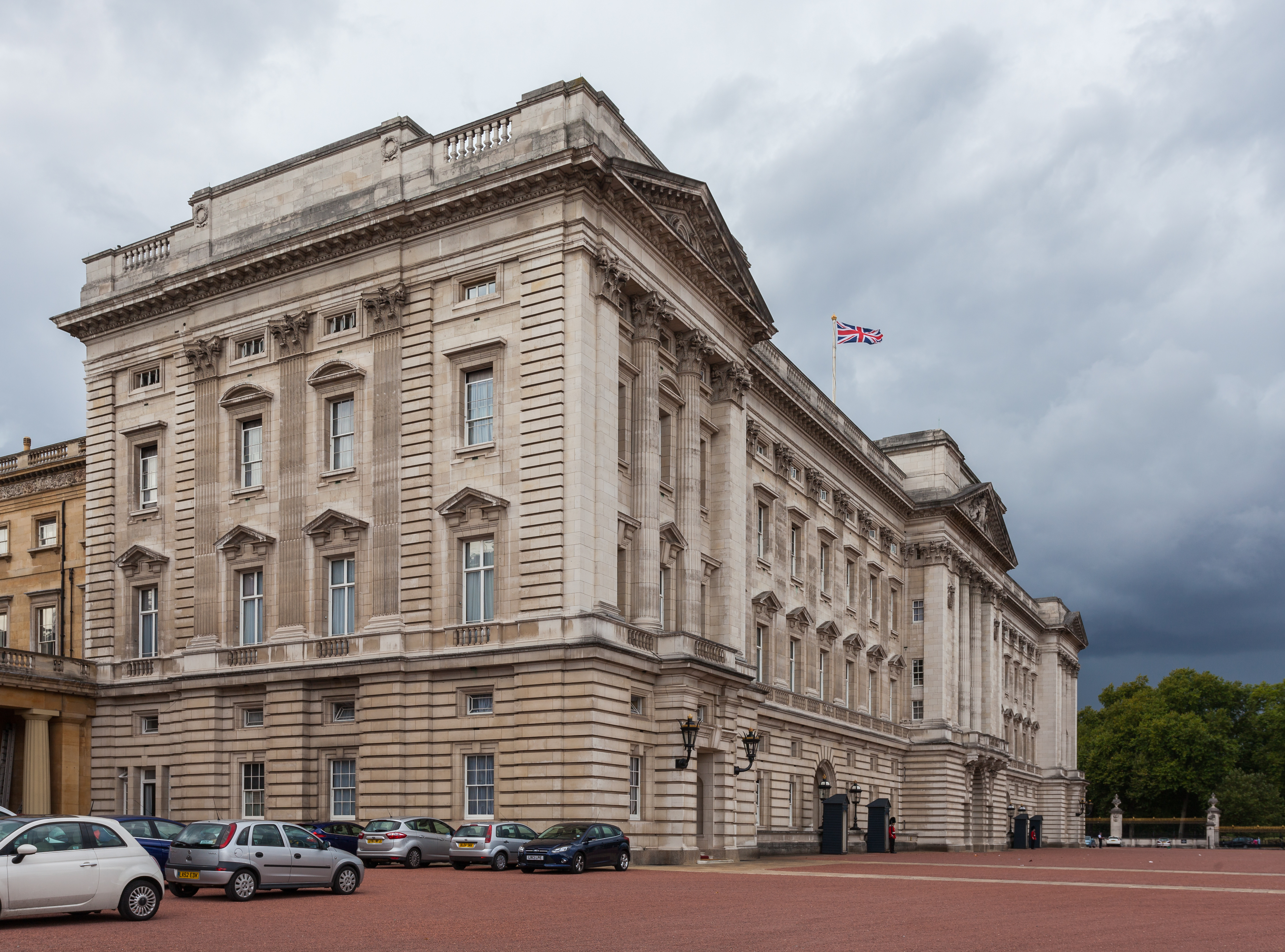 Buckingham Palace, London, England